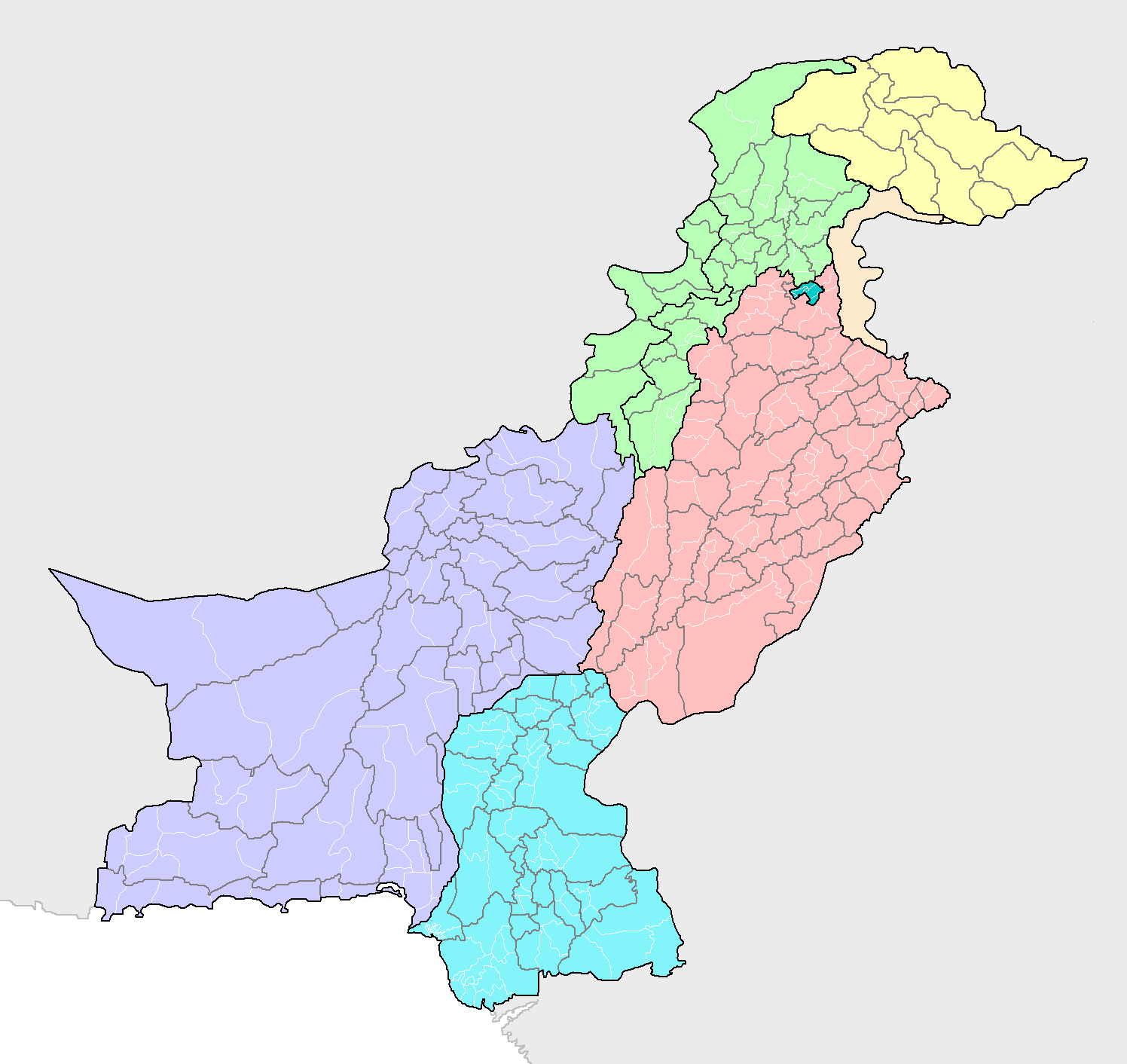 Map of the districts of Pakistan, with their constituent tehsils (thin white borders). Map includes the disputed areas. Created by Rarelibra 20:47, 31 October 2007 (UTC) for public domain use, using MapInfo Professional v8.5 and various mapping resources.